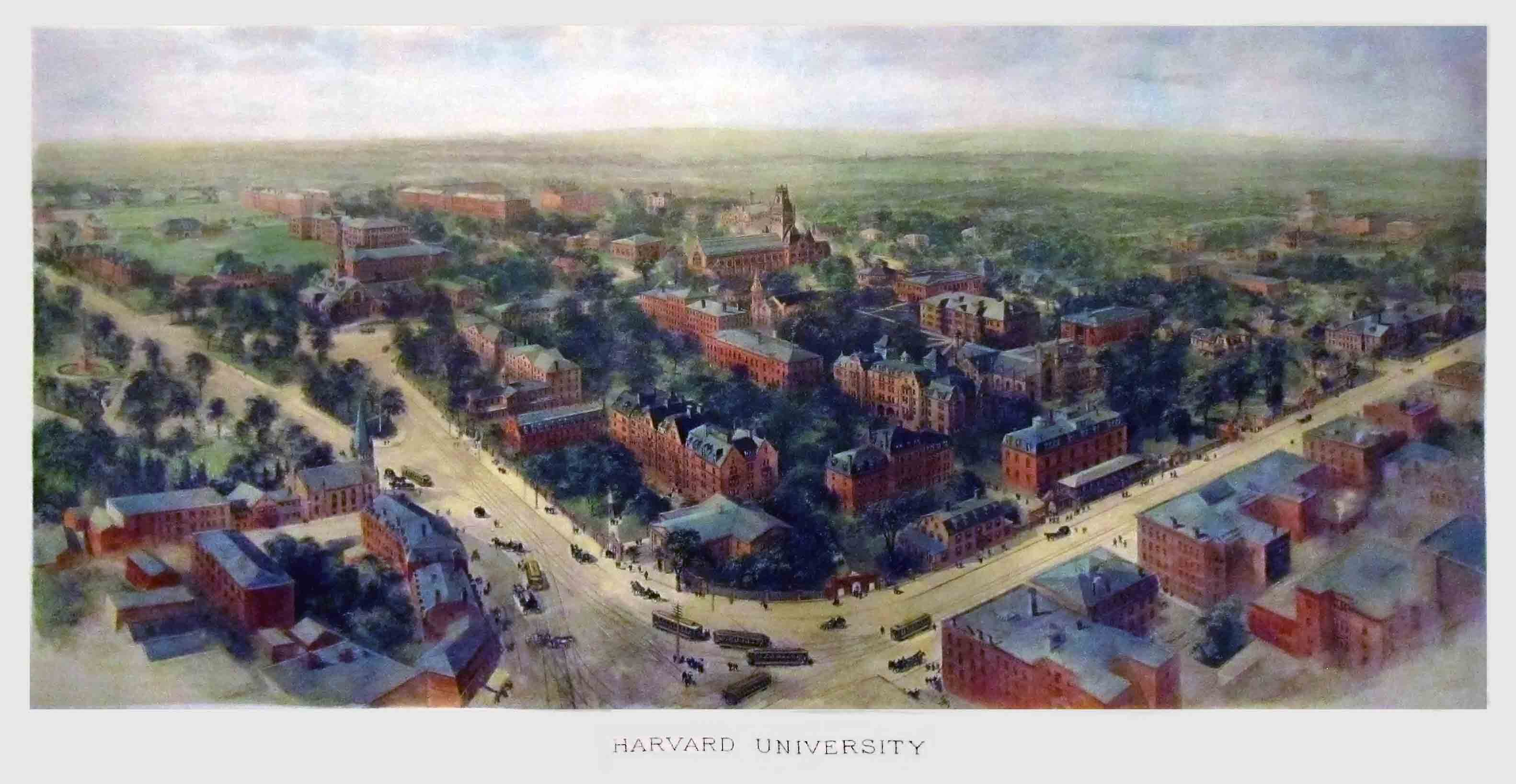 Richard Rummell's iconic landscape watercolor view of Harvard University, 1906. Courtesy of Arader Galleries.